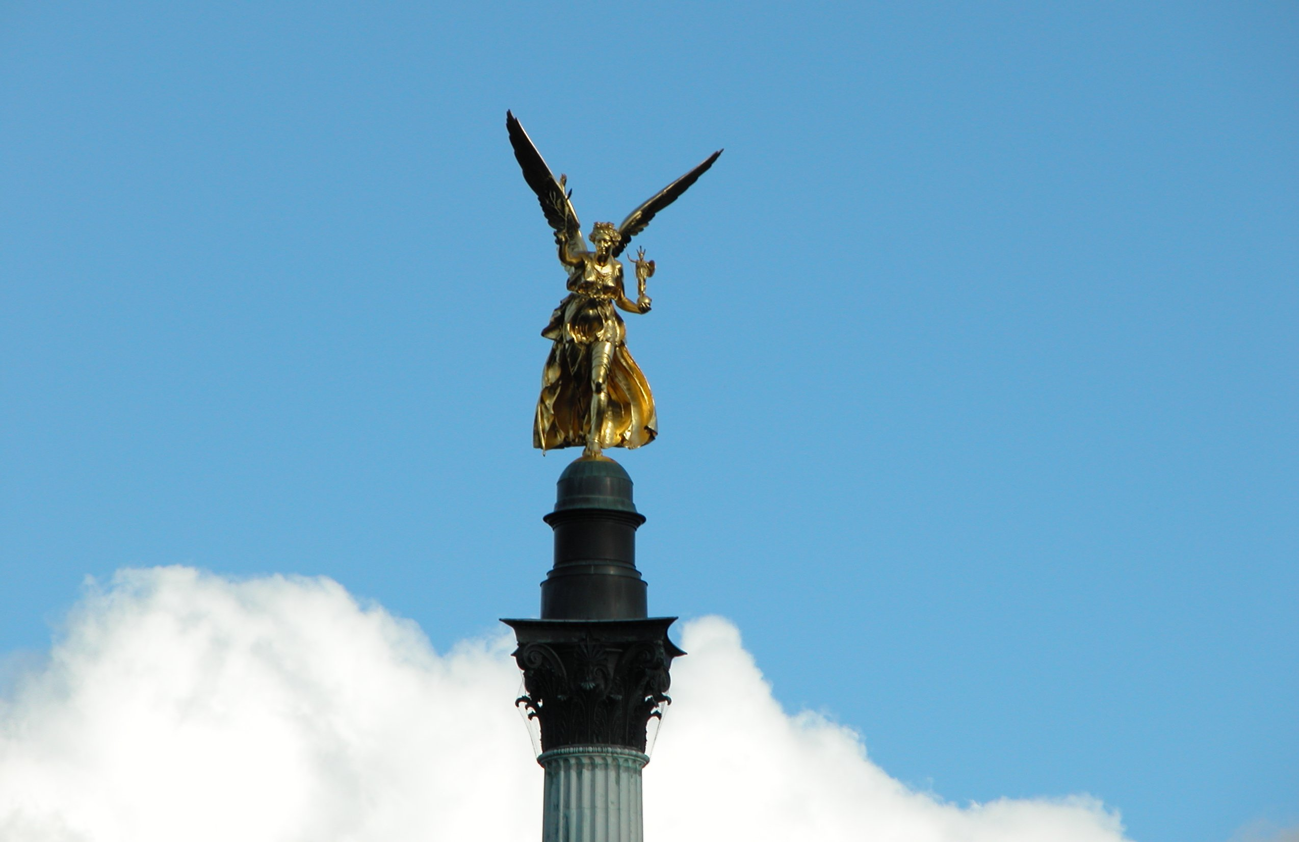 View at the Friedensengel